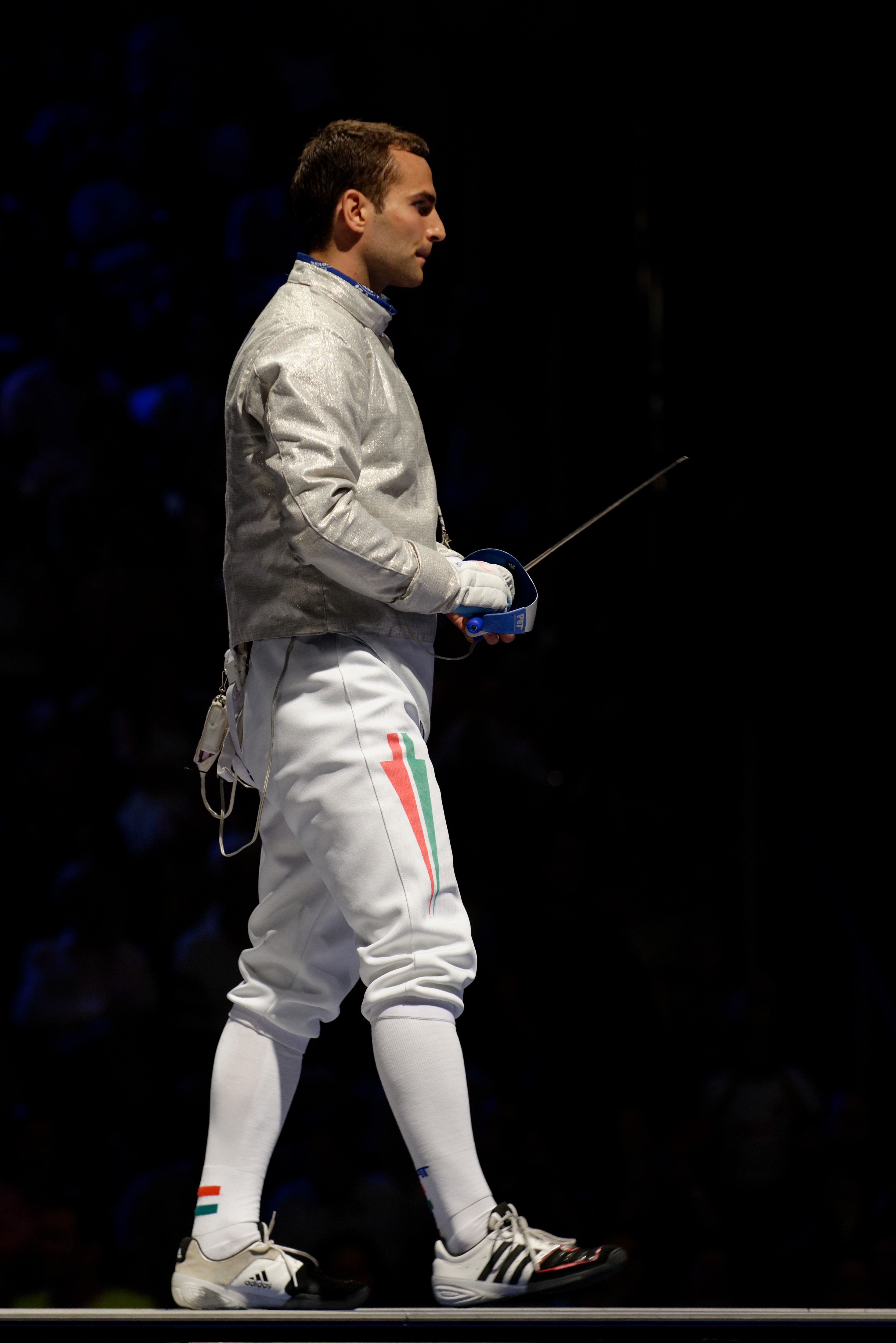 Hungary's Áron Szilágyi during the men's sabre semi-final against Russia's Nikolay Kovalev (R) in the men's sabre semi-finals of the 2013 World Fencing Championships 2013 at Syma Hall in Budapest, 10 August 2013.